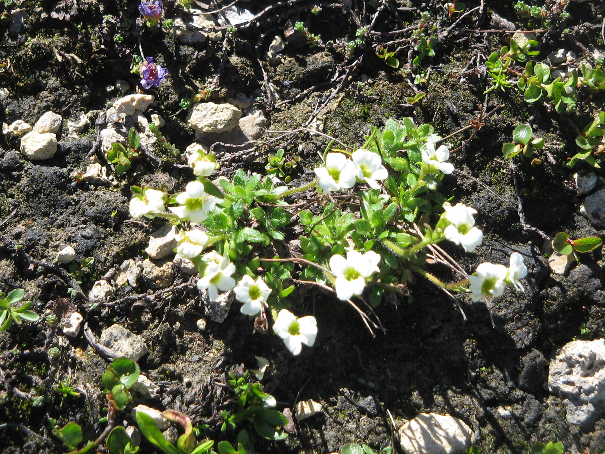 Saxifraga androsacea